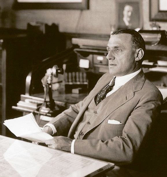 Portrait of Walter Jodok Kohler (1875-1940)